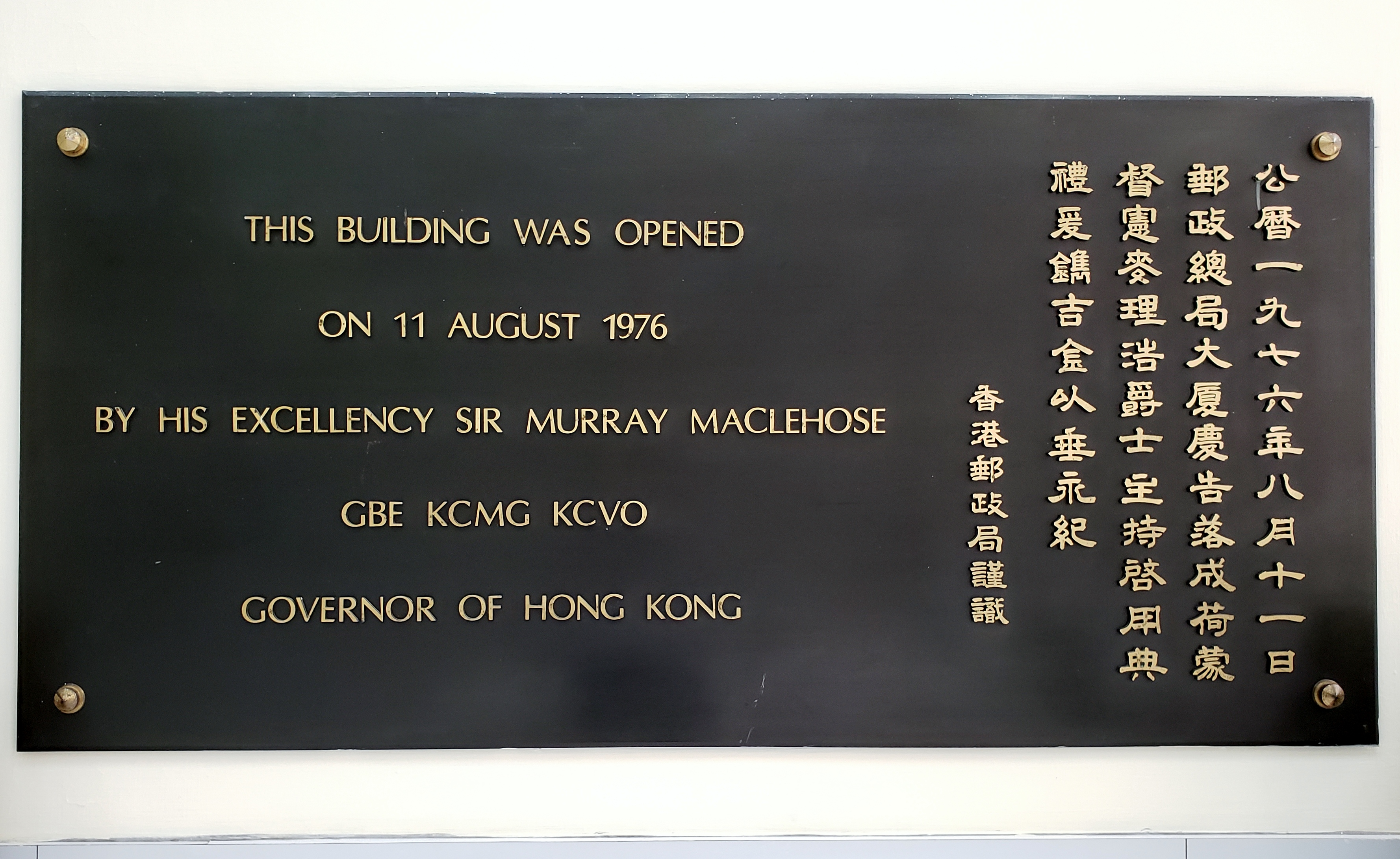 The plaque, unveiled by Sir Murray MacLehose, Governor of Hong Kong, on 11 August 1976, commemorating the opening the of the new General Post Office building in Hong Kong.